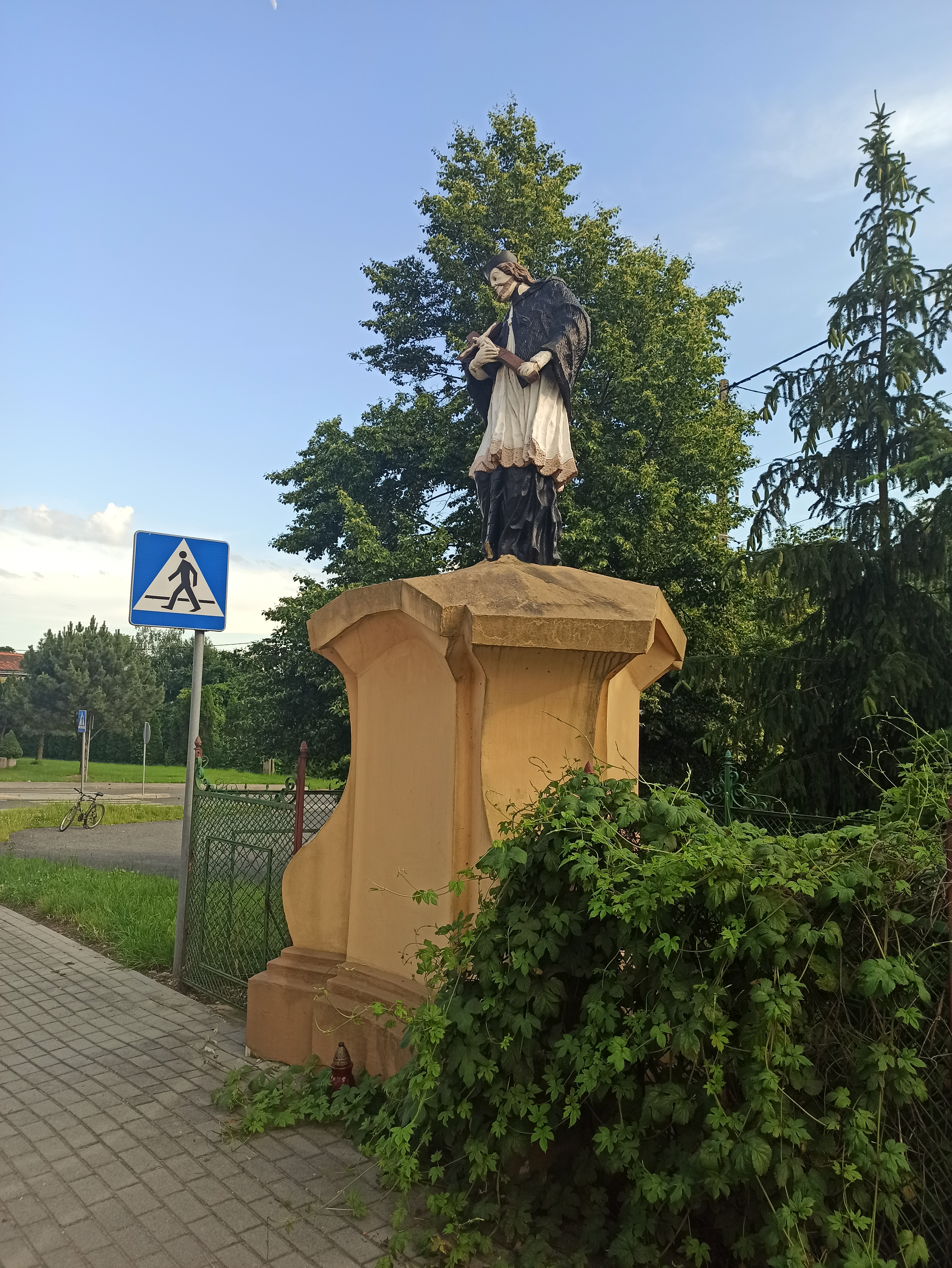 John of Nepomuk statue in Dytmarów, Poland. 10.1958.